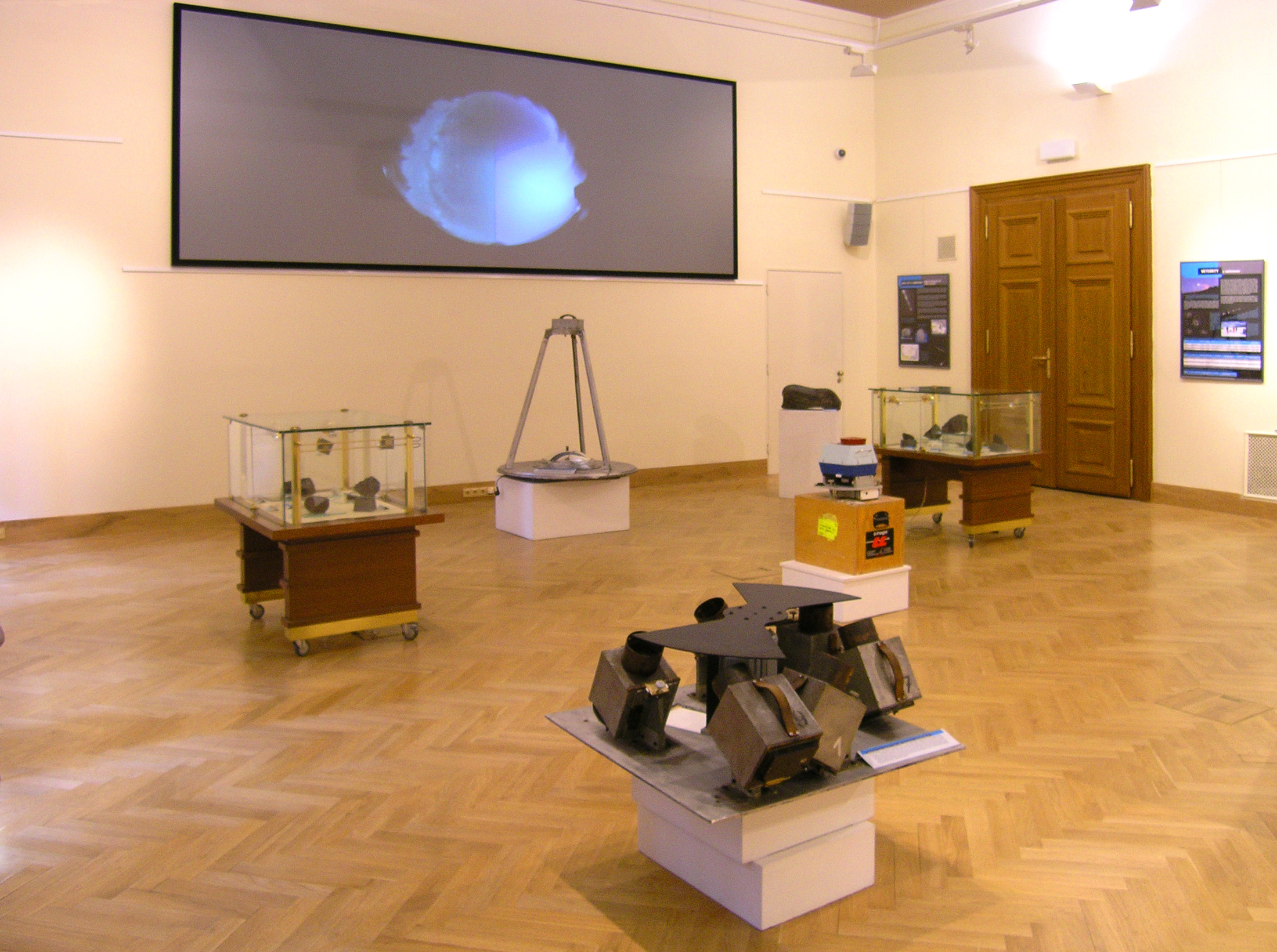 Exhibition 50th Anniversary of the Příbram Meteorite Fall, Prague, Czech Republic. It was the first meteorite to have its fall to Earth recorded by a camera network, enabling its trajectory and orbit to be determined and the meteorite to be recovered. Pribram meteorite fell on Apr. 7, 1959. TKW 9.5 kg.